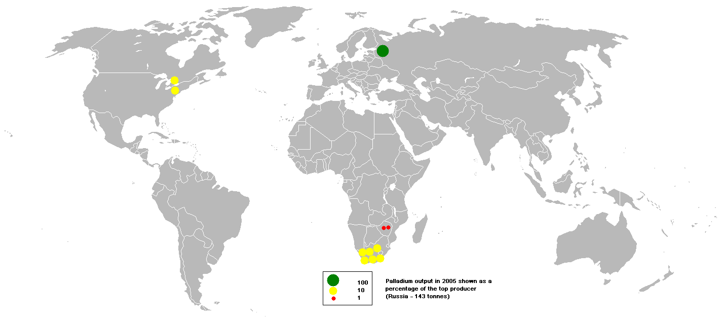 This bubble map shows the global distribution of palladium output in 2005 as a percentage of the top producer (Russia - 143 tonnes). This map is consistent with incomplete set of data too as long as the top producer is known. It resolves the accessibility issues faced by colour-coded maps that may not be properly rendered in old computer screens. Data was extracted on 31st May 2007. Source - Based on Image:BlankMap-World.png